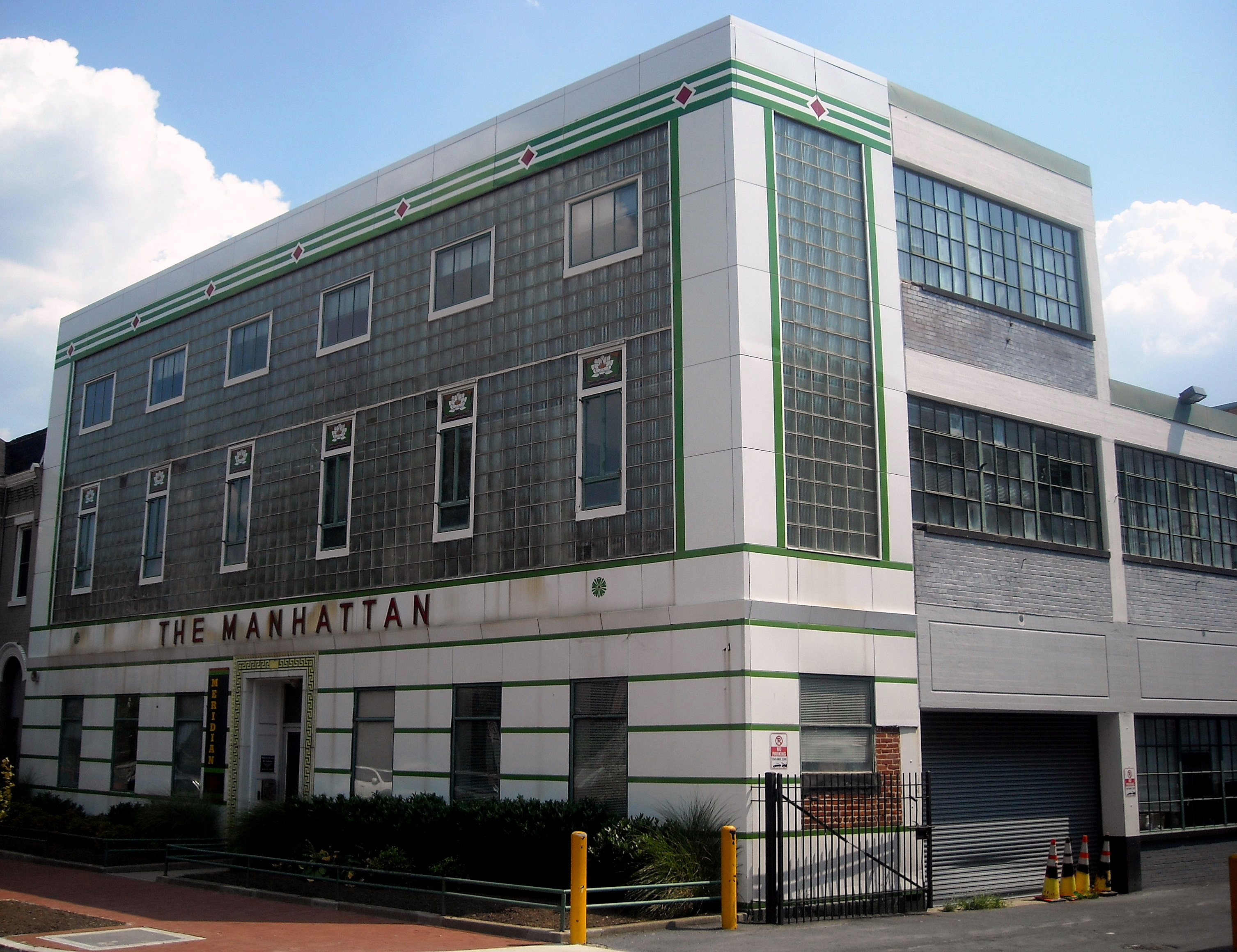 The Manhattan Laundry complex located at 1326-1346 Florida Avenue, NW in the U Street Corridor of Washington, D.C. Its comprised of three buildings constructed between 1877 to 1936: West Building (Washington & Georgetown Railroad Company Car Barn) - (1877; Industrial Vernacular; designed by John B. Brady), steam plant (1908), and addition (1926; designed by A.S.J. Atkinson) South Building - stable and warehouse (1911; Late Victorian) East Building - rug cleaning plant and dry cleaning facility (1936; Art Deco; designed by Alexander M. Pringle), and administrative offices (pictured; 1936; Art Deco; designed by Bedford Brown) The Manhattan Laundry is listed on the National Register of Historic Places and is a contributing property to the Greater U Street Historic District.